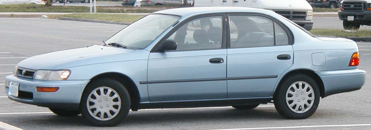 1992-1997 Toyota Corolla sedan photographed in USA.